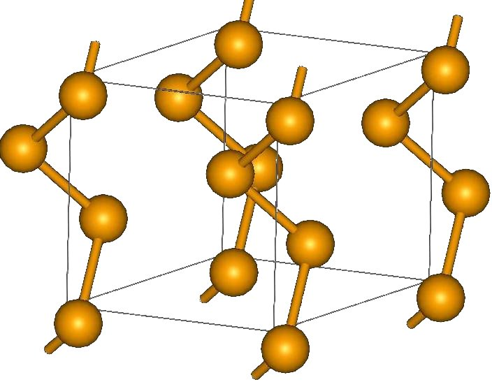 Structure of trigonal selenium